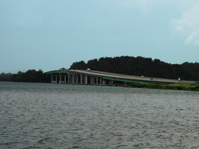 An image of U.S. Highway 431 over the Tennessee River in Guntersville, Alabama. Photograph taken by Larry Wilbourn on July 20, 2010.